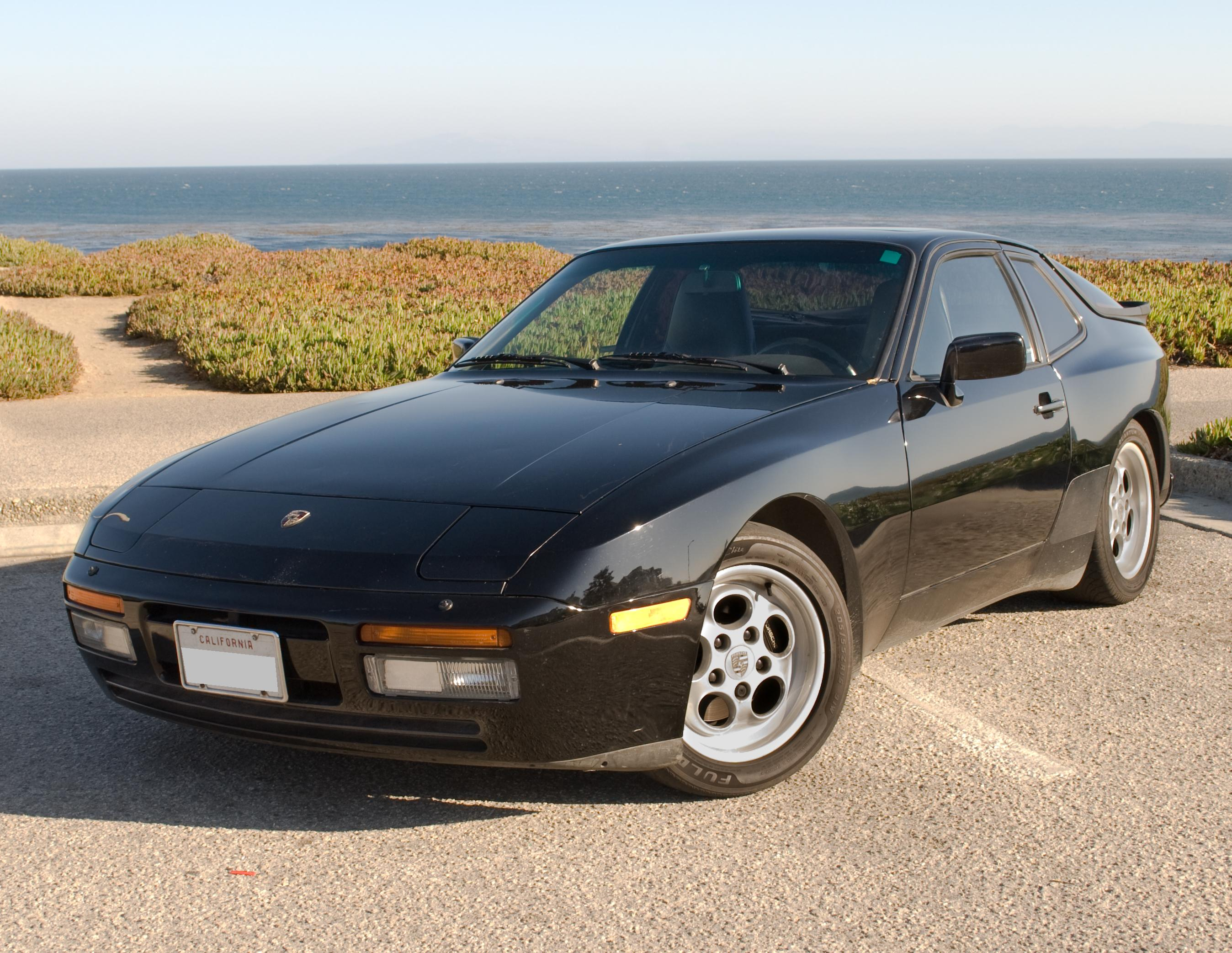 Stock 1986 Porsche 944 Turbo on West Cliff Drive in Santa Cruz, California